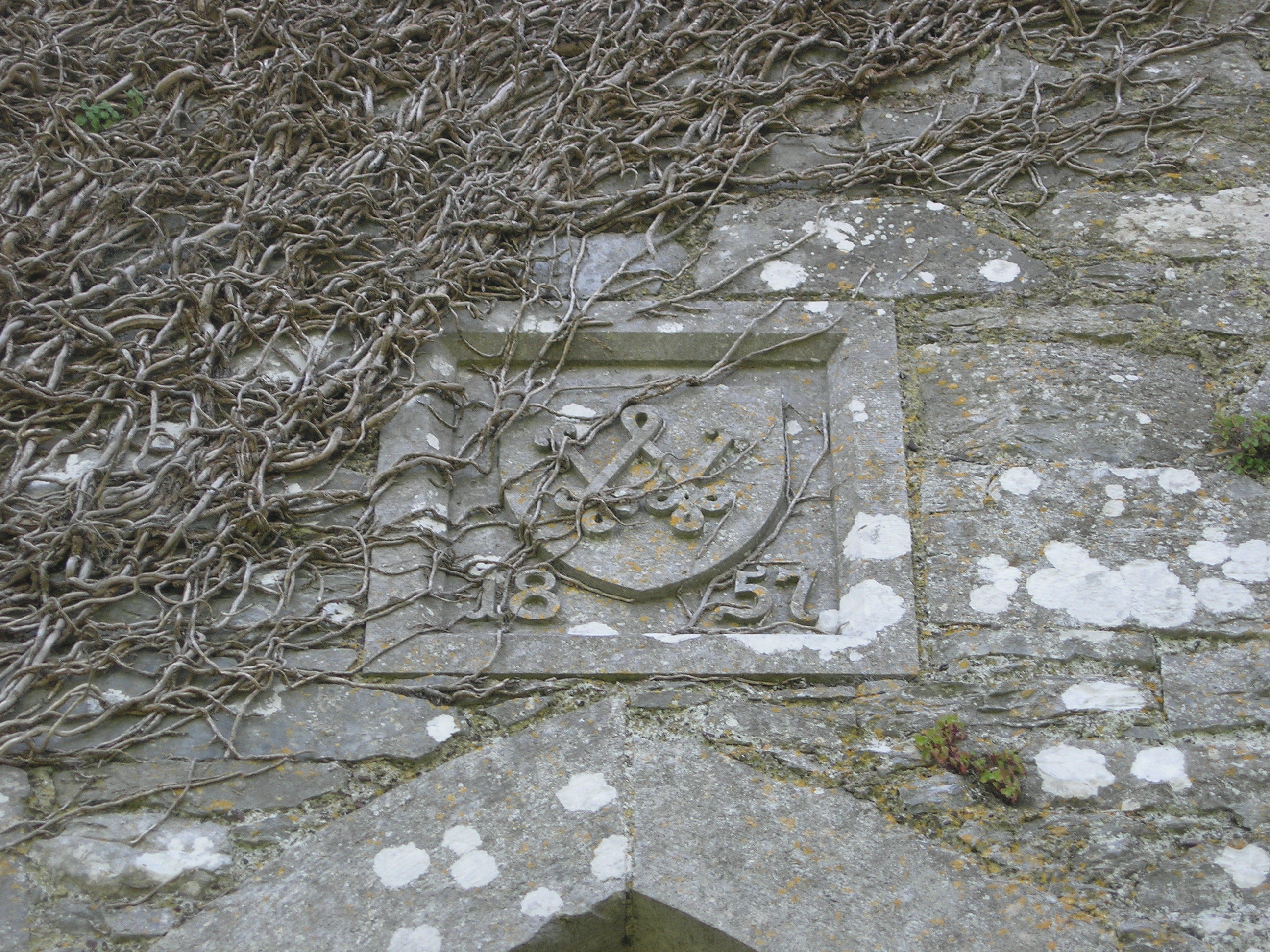 Monogram on east side of Ballincollig Castle tower above entrance. "W" 1857. Co. Cork, Ireland.